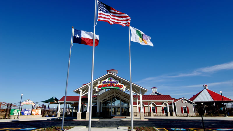 Morgan's Wounderland Entrence